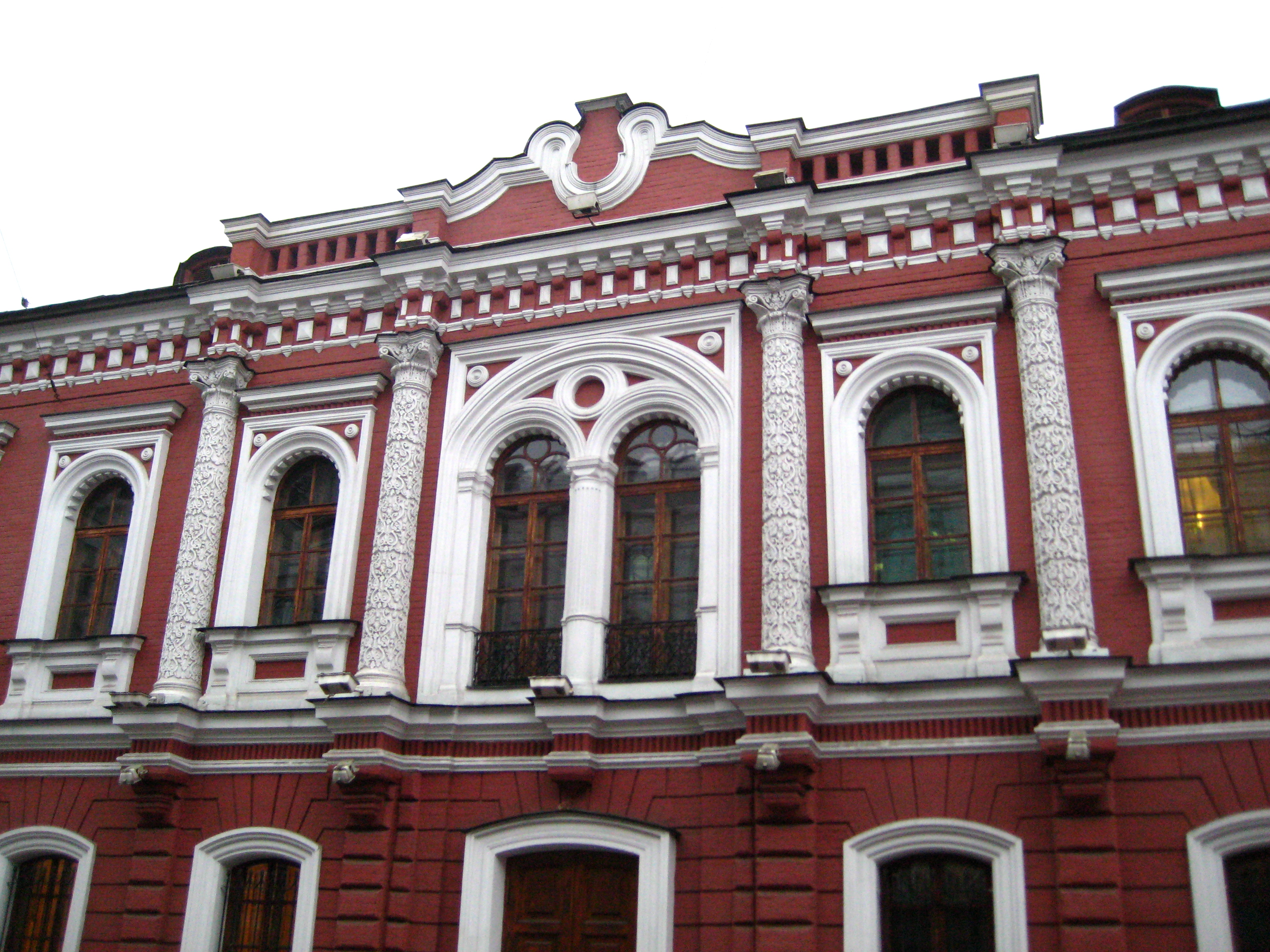 Rzhevsky House in Moscow, corner of Gogolevsky Boulevard and Gagarinsky Lane